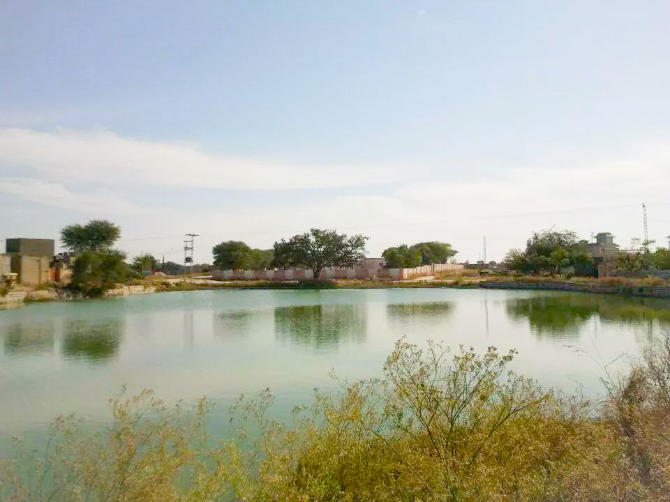 Dhab Kalan The Chappar